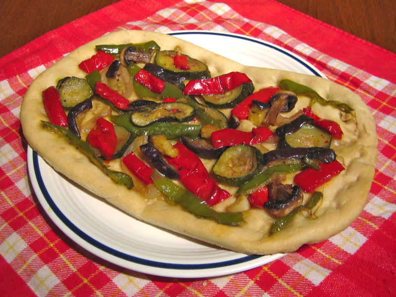 coques d'escalivada (catalan pizza with roasted vegetables).